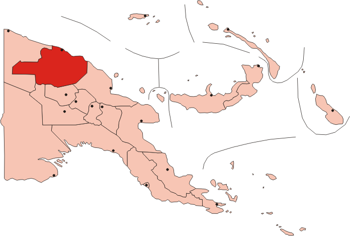 East Sepik Province - Papua New Guinea